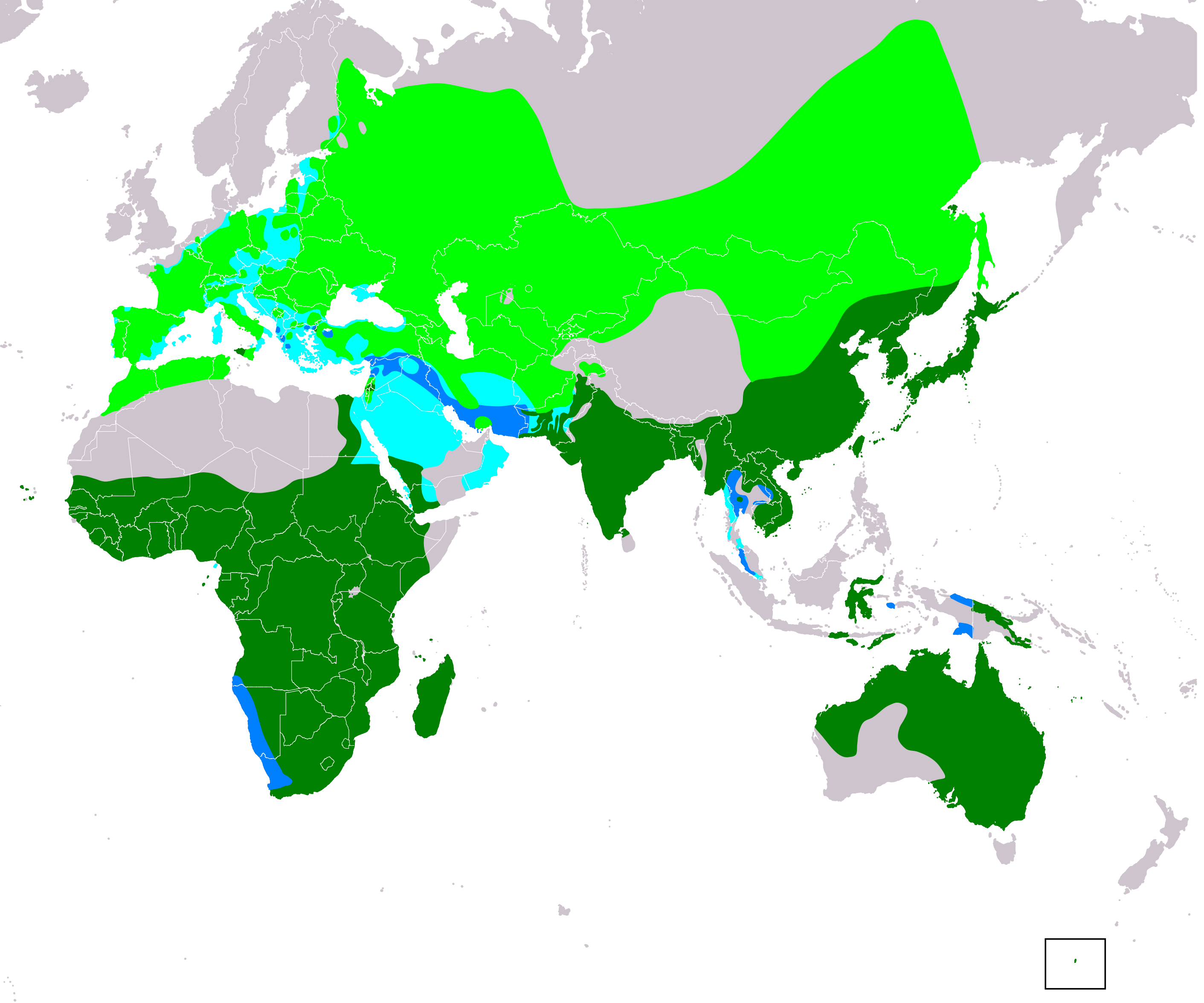 distribution map of black kite (Milvus migrans) according to IUCN version 2018.2 , Legend: Extant, breeding (#00FF00), Extant, resident (#008000), Extant, passage (#00FFFF), Extant, non-breeding (#007FFF)